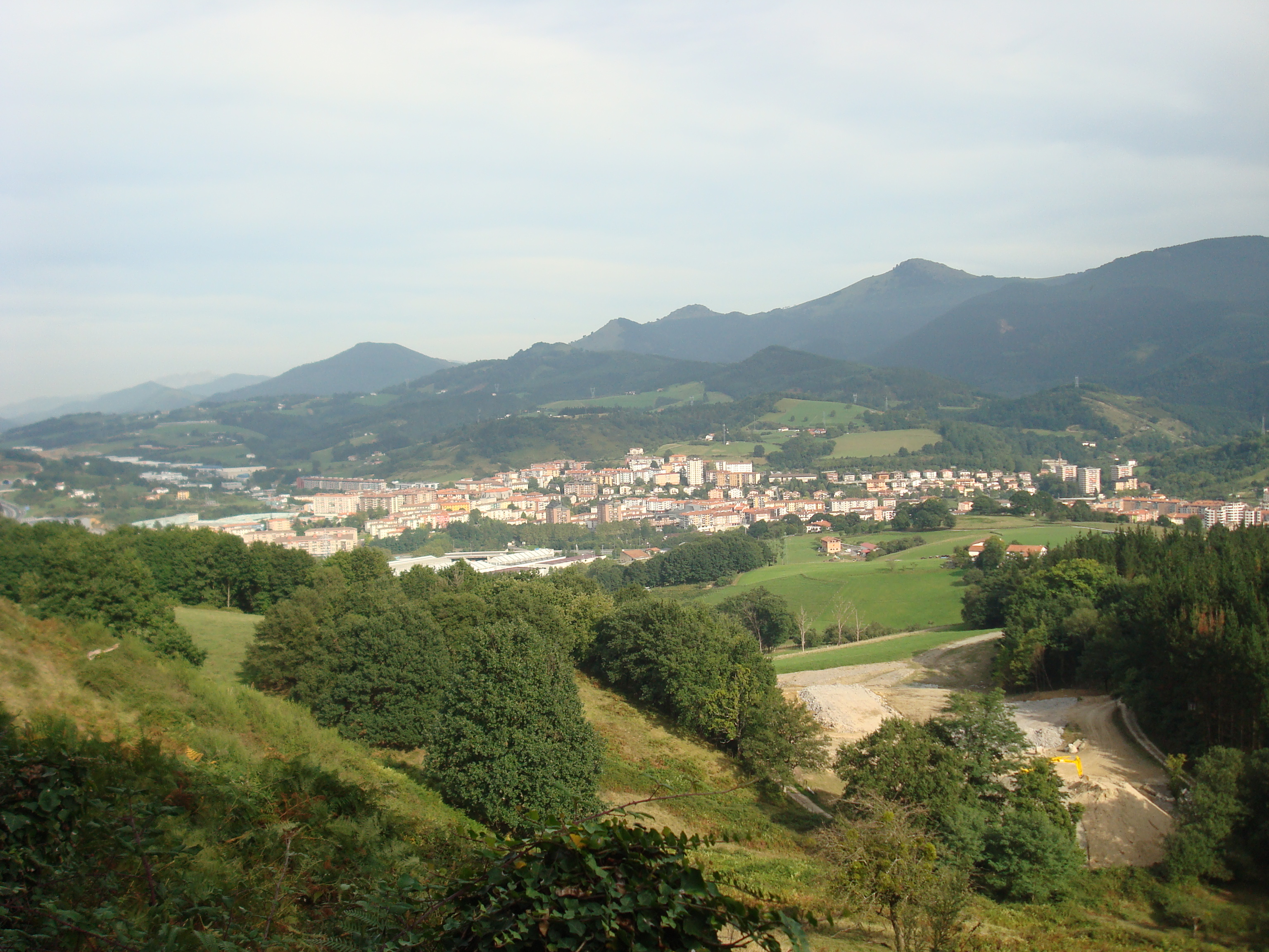 General town view from the mountains